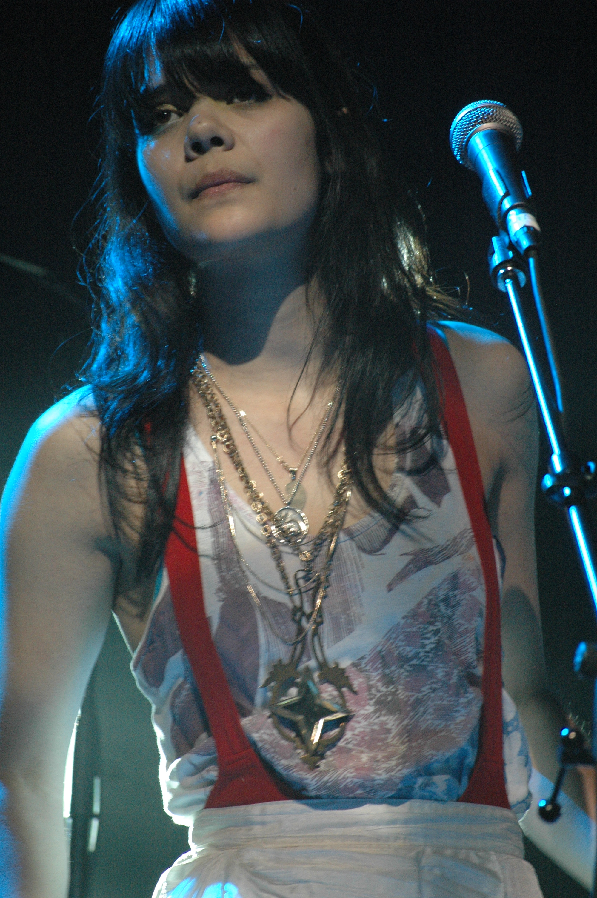 Bat for Lashes